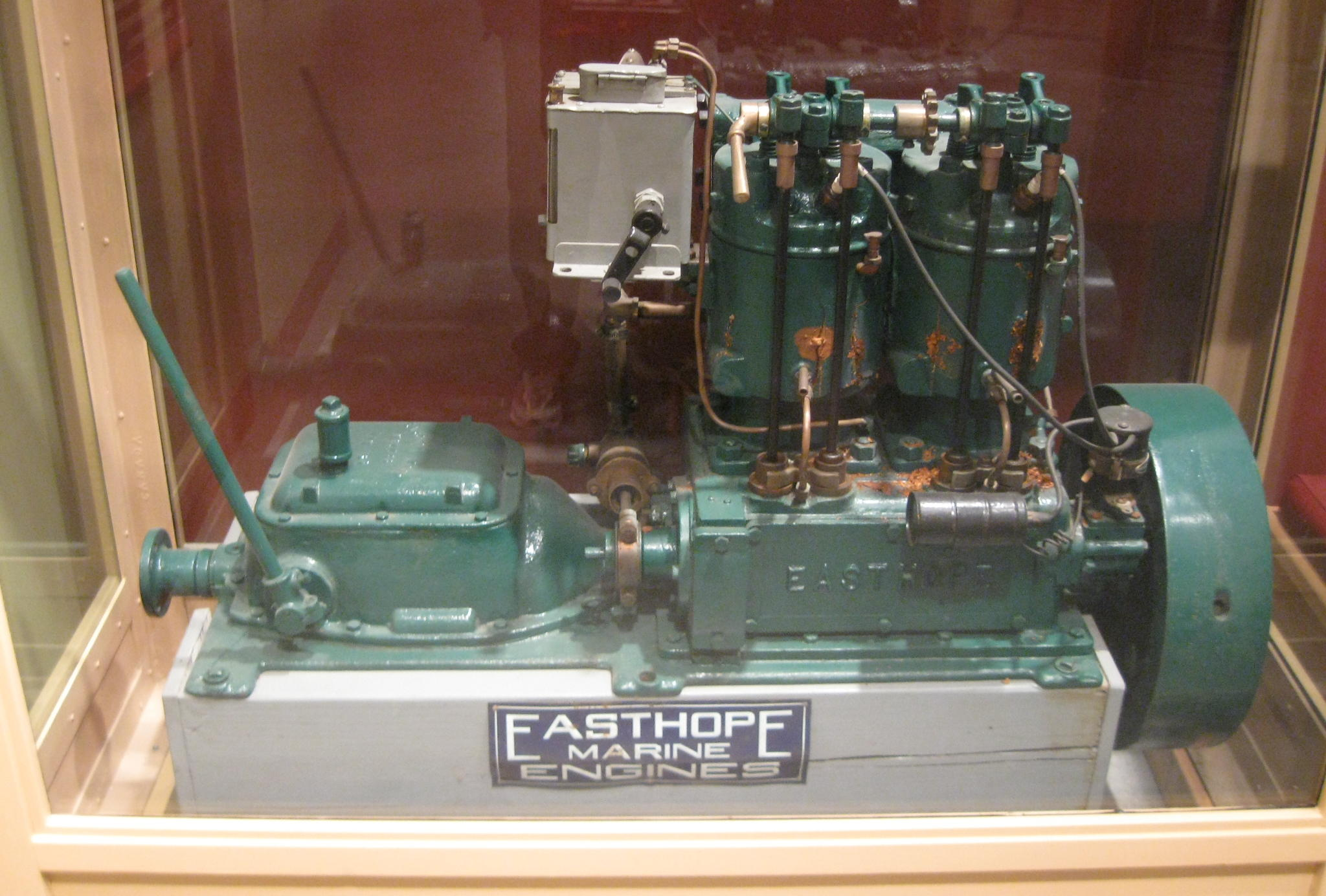 A restored Easthope Marine model boat engine now in the City of Surrey Museum in Cloverdale, BC, Canada. This company's engines was favored with fisherman who needed affordable means of powering their gillnets. The engine was very popular in this company's heyday in the 1950's. The last Easthope boat engine was manufactured in 1968.